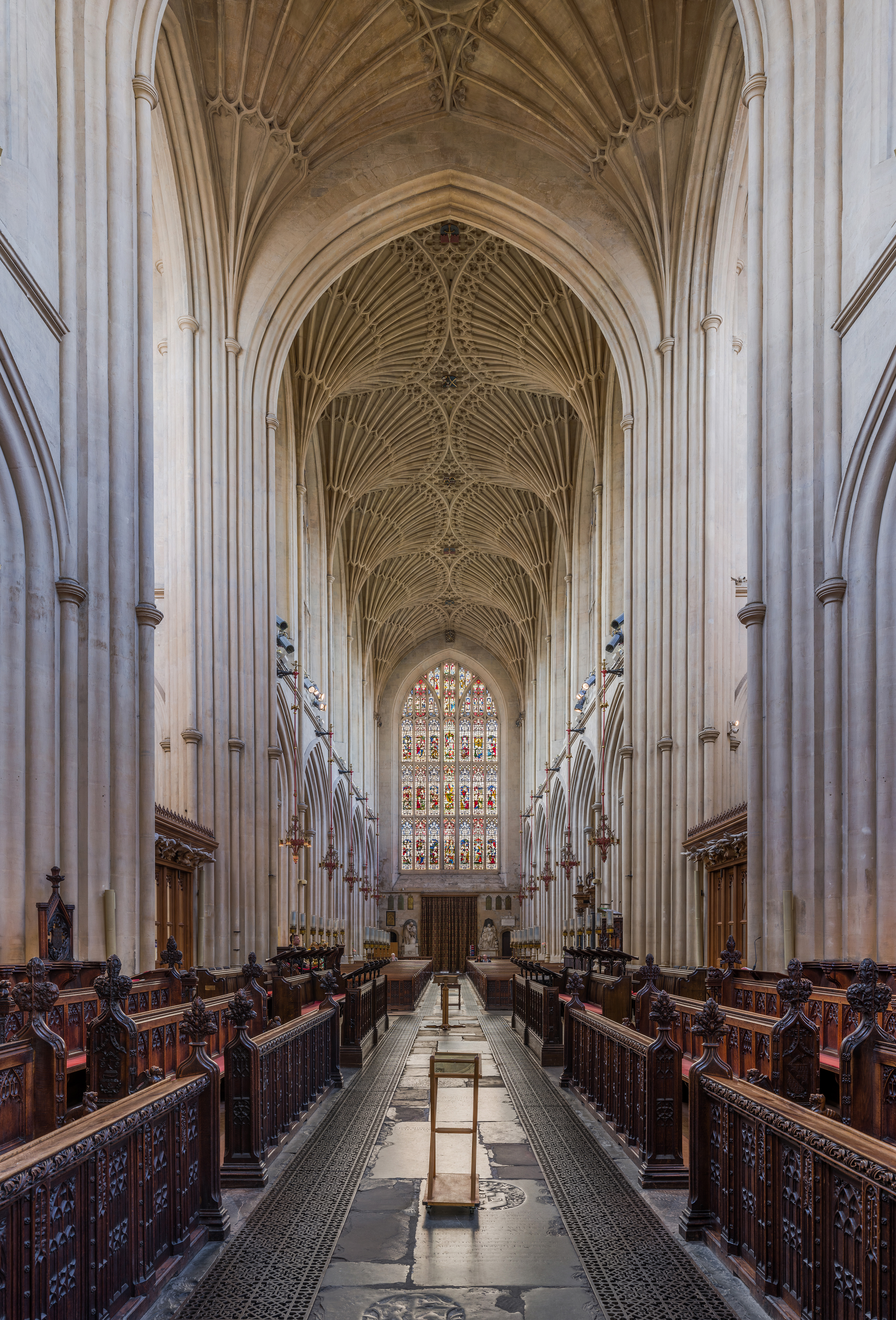 Bath Abbey's nave, viewed from the east looking west.